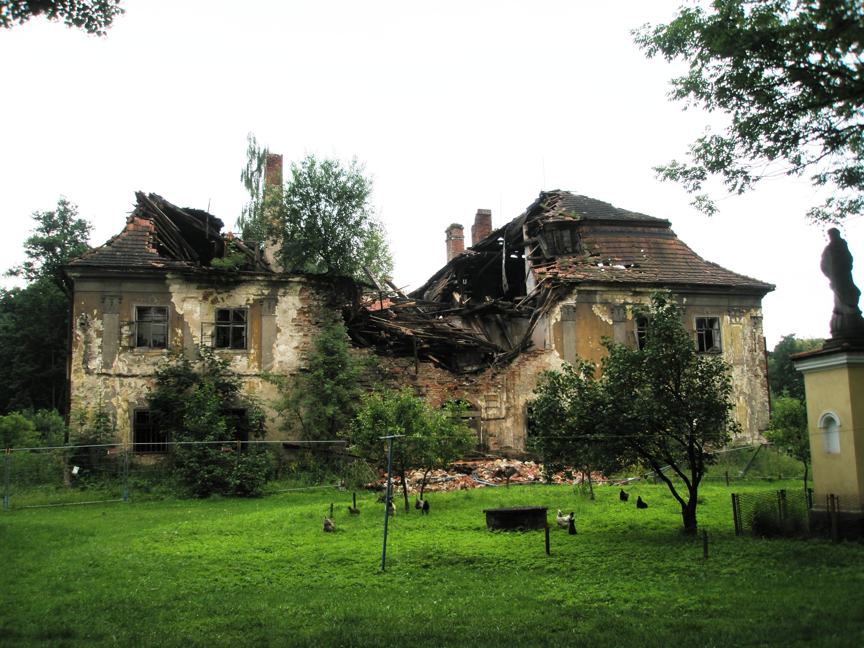 Ruins of the château in Ropice (Ropica, Roppitz).